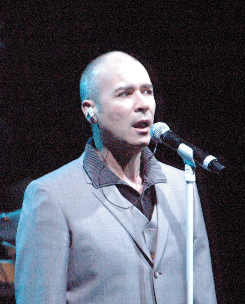 British Veteran Singer/Songwriter Philip Oakey